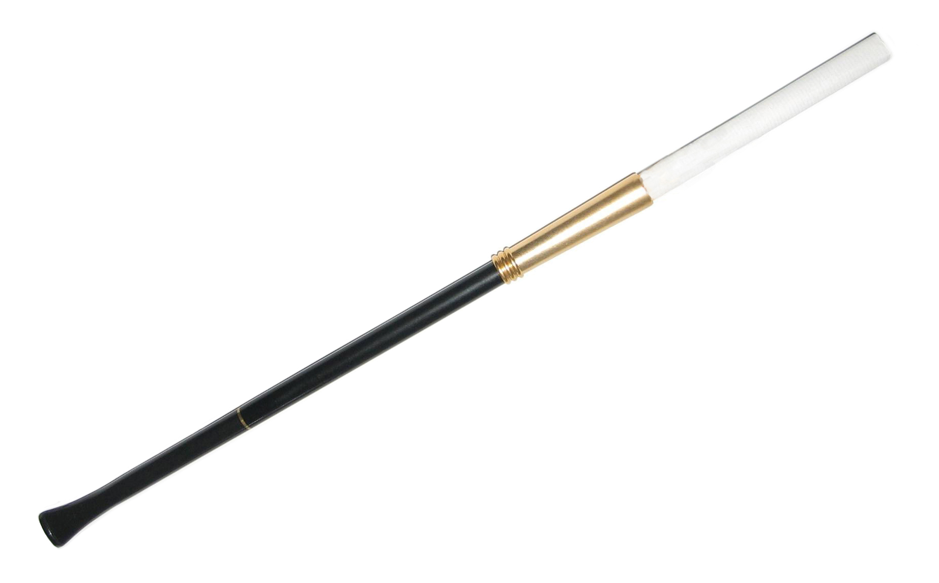 Cigarette holder, picture taken by Absinthe 12:04, 31 August 2007 (UTC) (Utente:Absinthe)